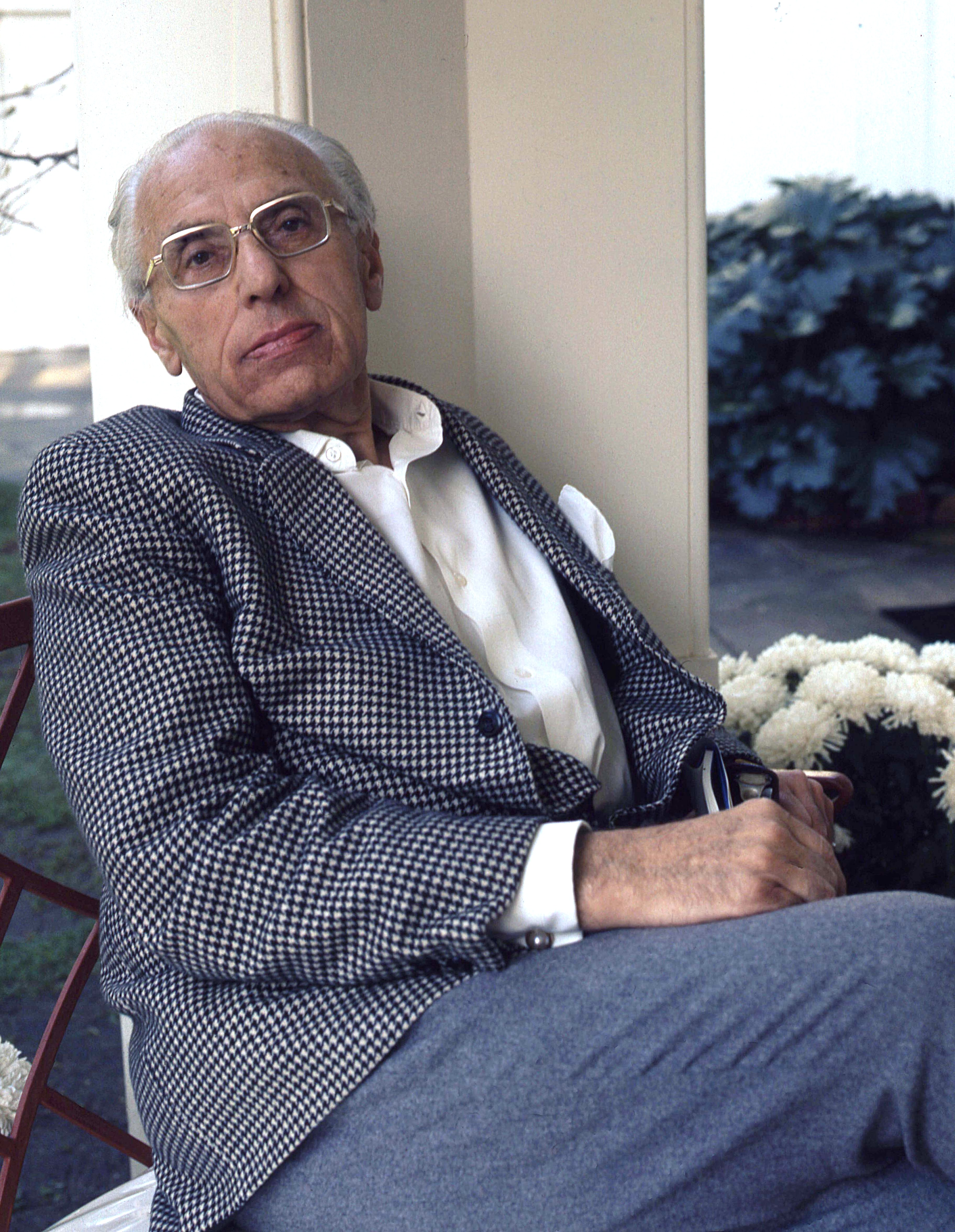 George Cukor taken at his home in Los Angeles